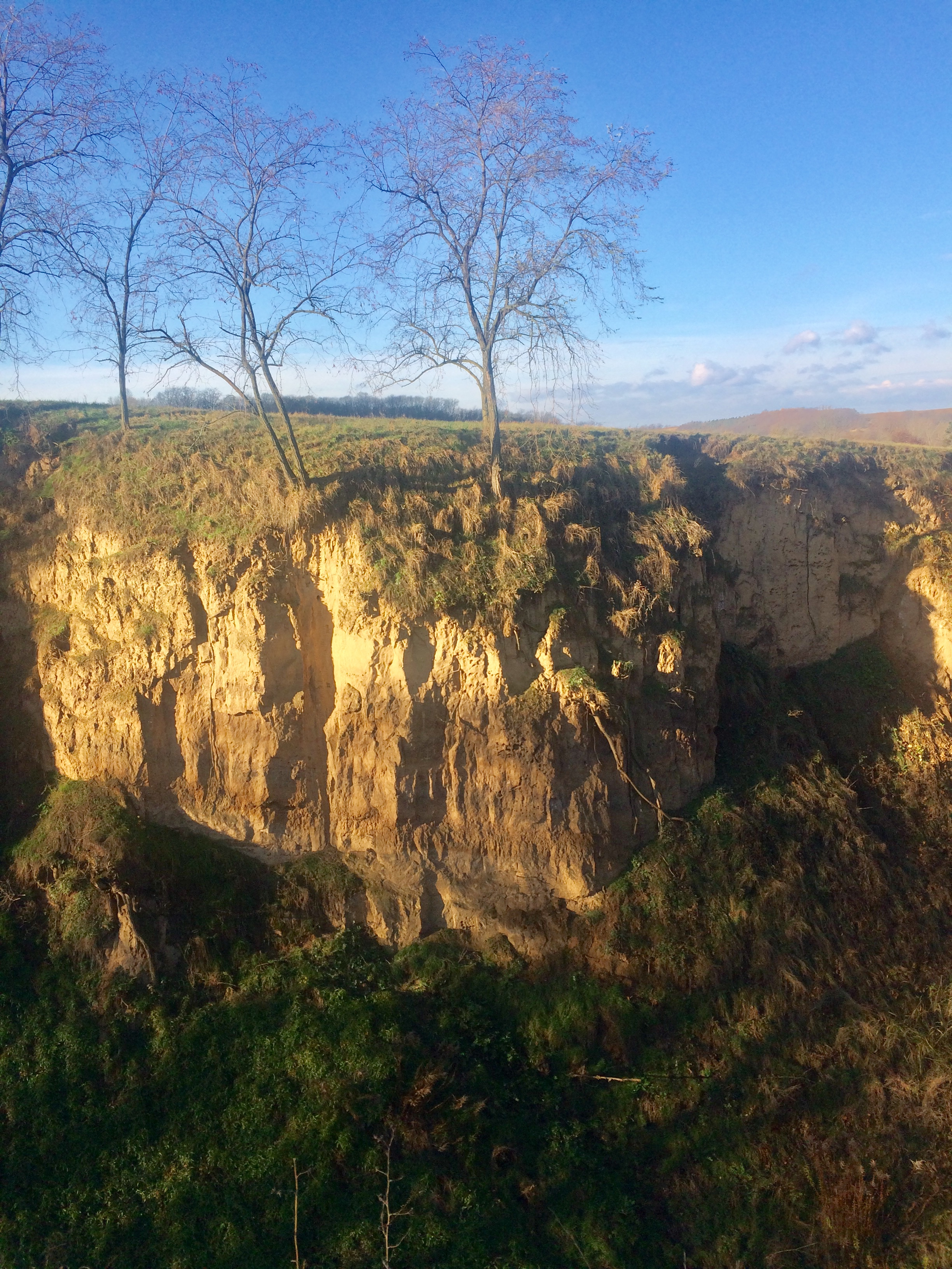 Detail na usazené vrstvy